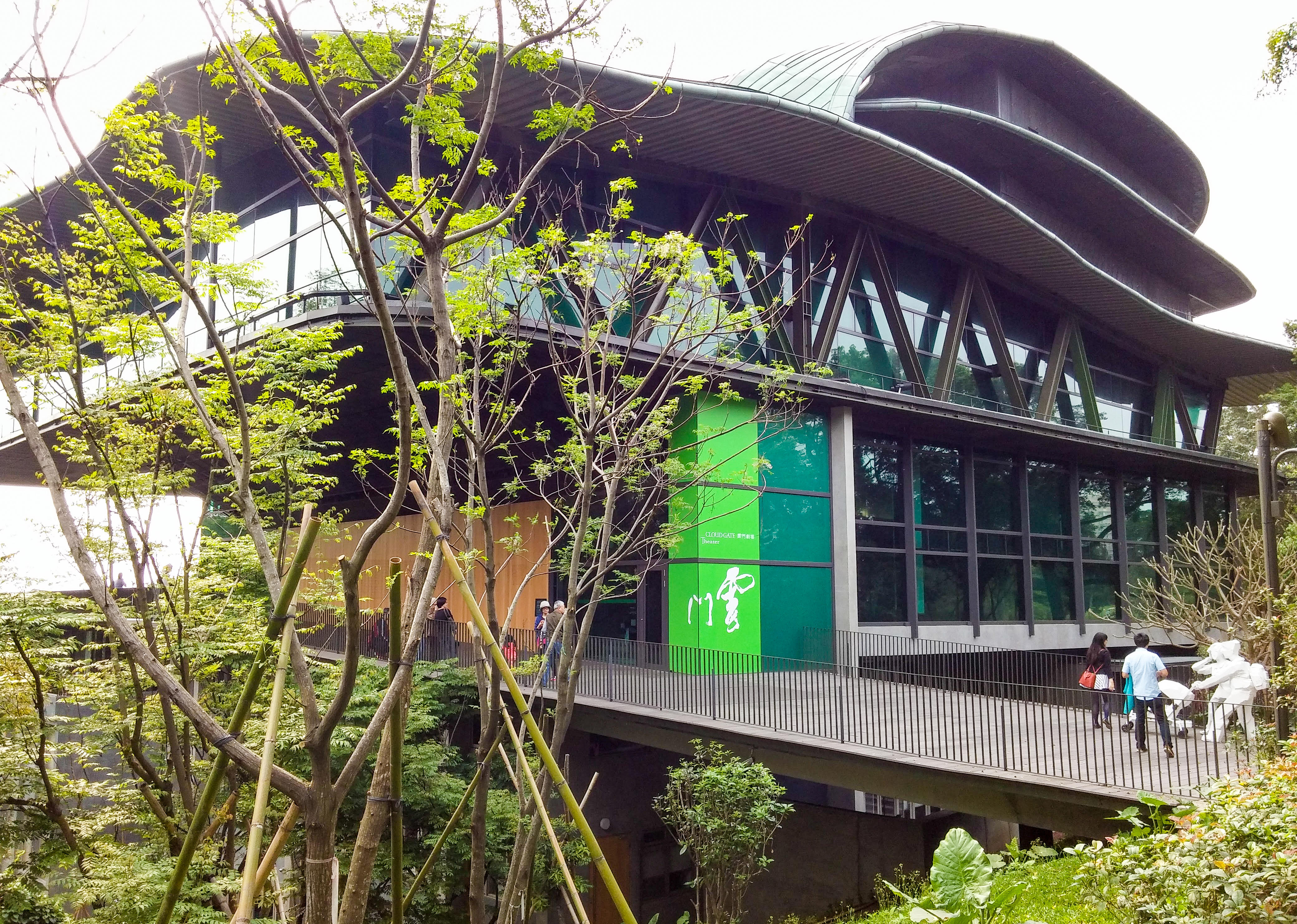 Cloud Gate Theater at Tamsui, New Taipei City, Taiwan